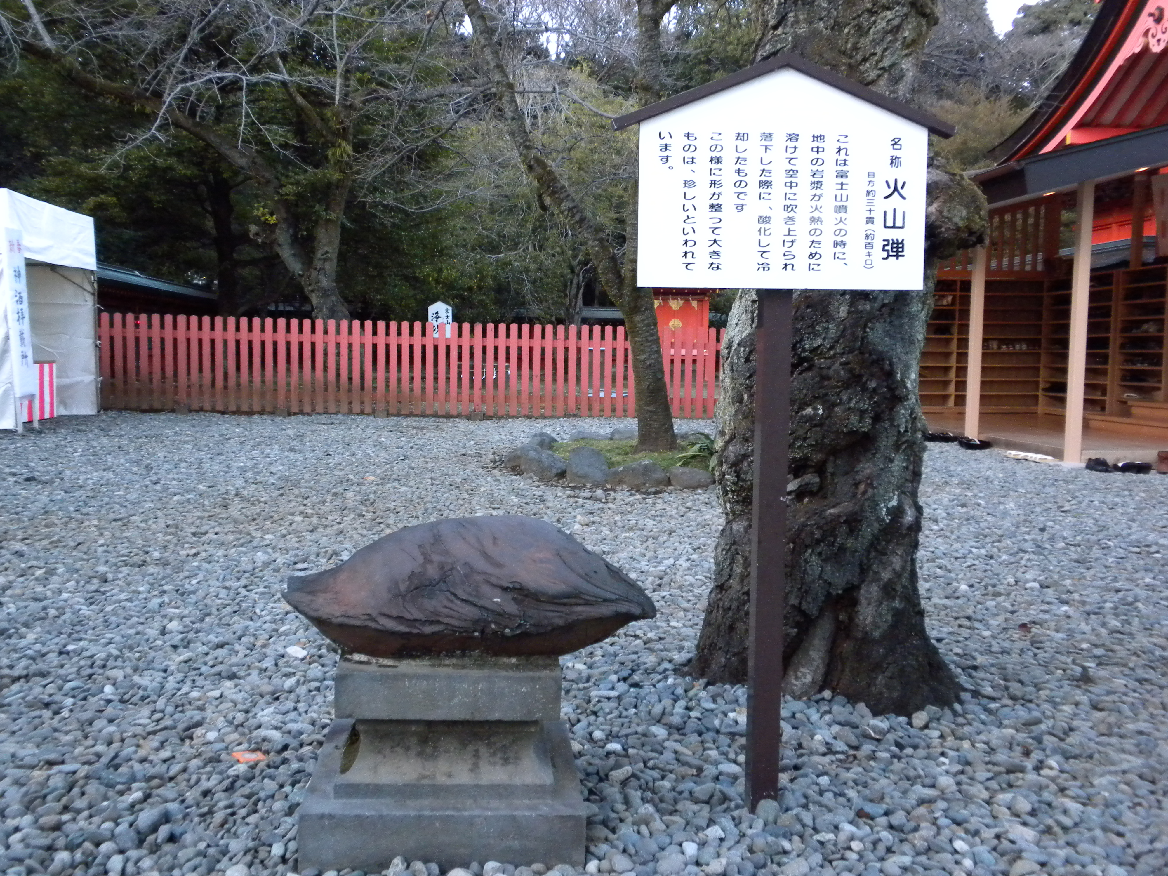 Fujisan Hongū Sengen Taisha Volcanic bomb